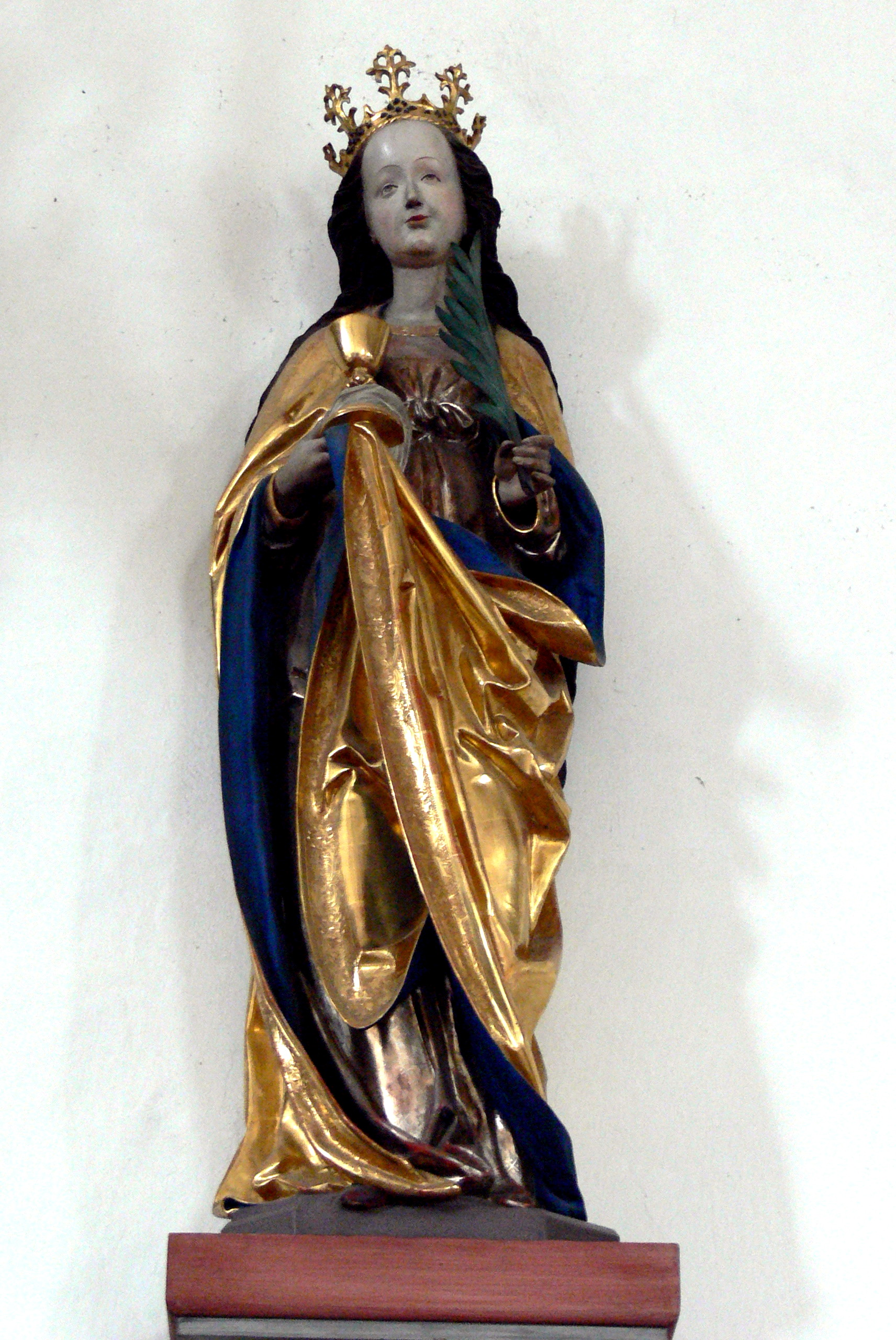 St.Zeno monastery church in Bad Reichenhall. Statue of Saint Barbara ( 1515 )